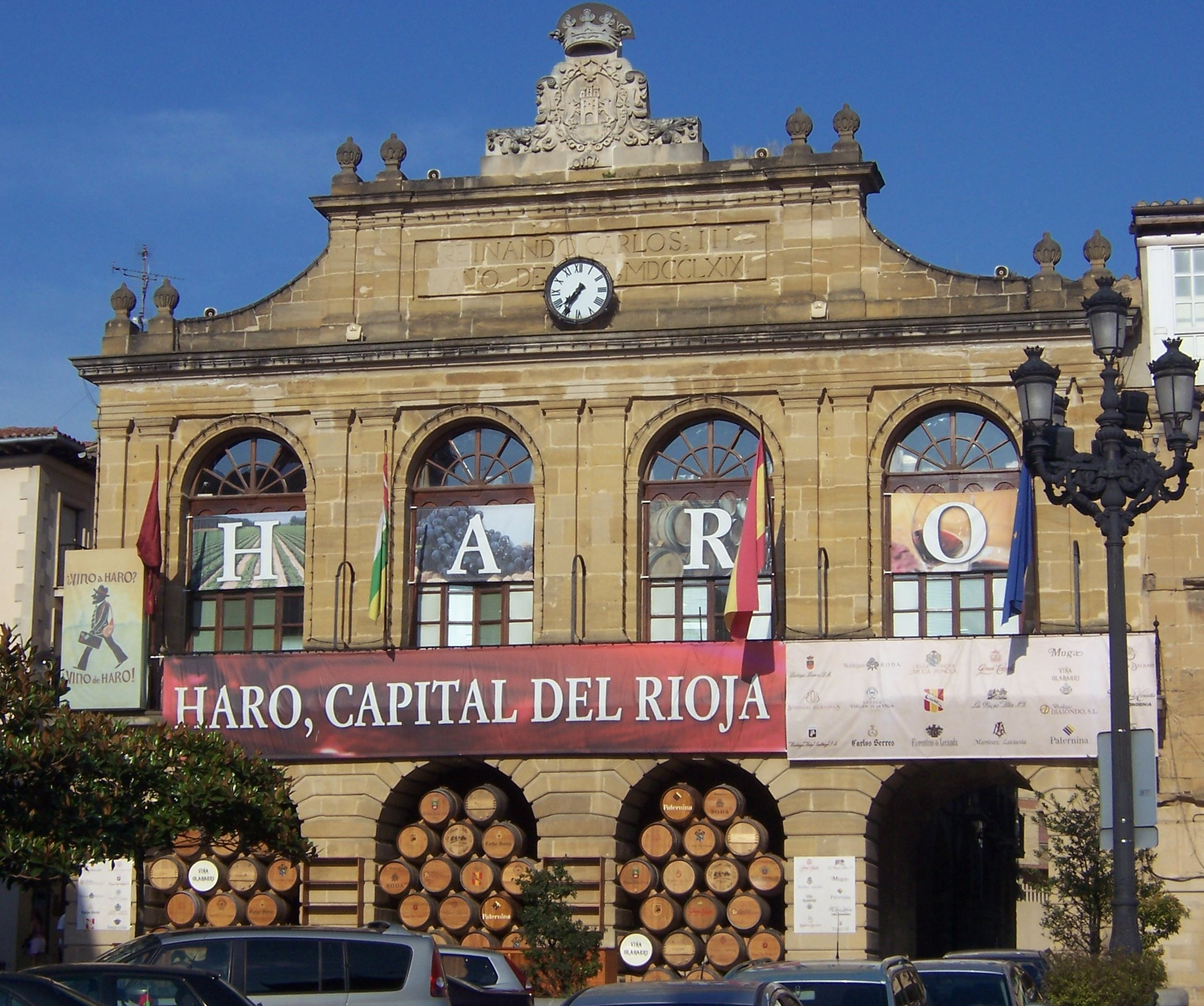 City council of Haro during the celebrations, La Rioja (Spain)